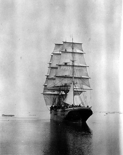 From John Cobb field notebook: Ship Llewellyn J. Morse just after getting thru the ice in bering Sea (head on). June 1918 Subjects (LCTGM): Ice floes--Alaska; Sailing ships--Alaska Subjects (LCSH): Llewellyn J. Morse (Sailing ship); Sea ice--Alaska